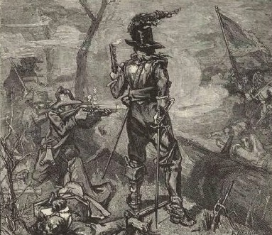 Engraving of "The Battle of the Mouth of the Severn" edges cropped for neater appeararance